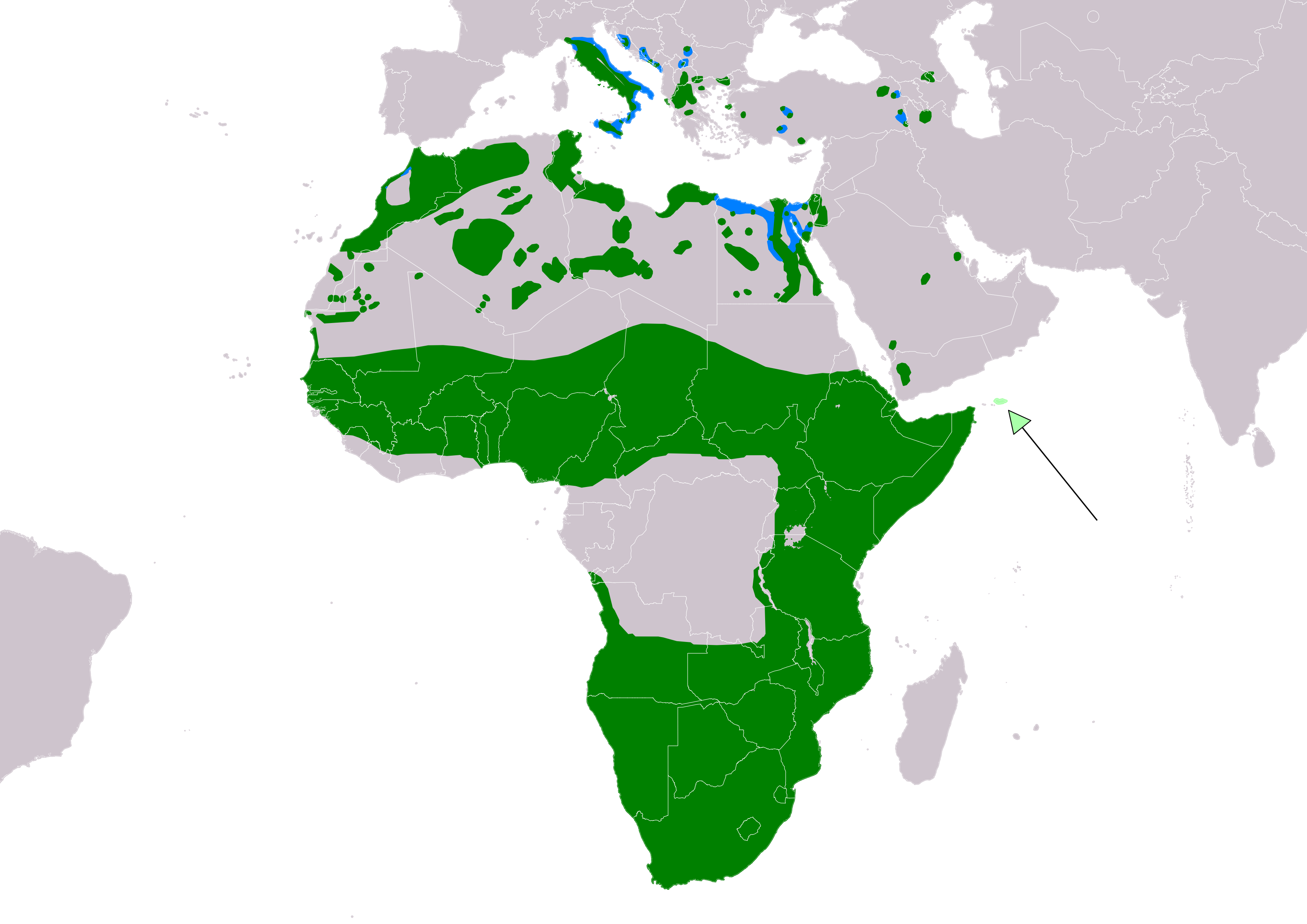 Distribution map of lanner falcon (Falco biarmicus) according to IUCN version 2019-3; key: Legend: Extant, resident (#008000), Extant, non-breeding (#007FFF), Possibly Extant (resident) (#AAFFAA)